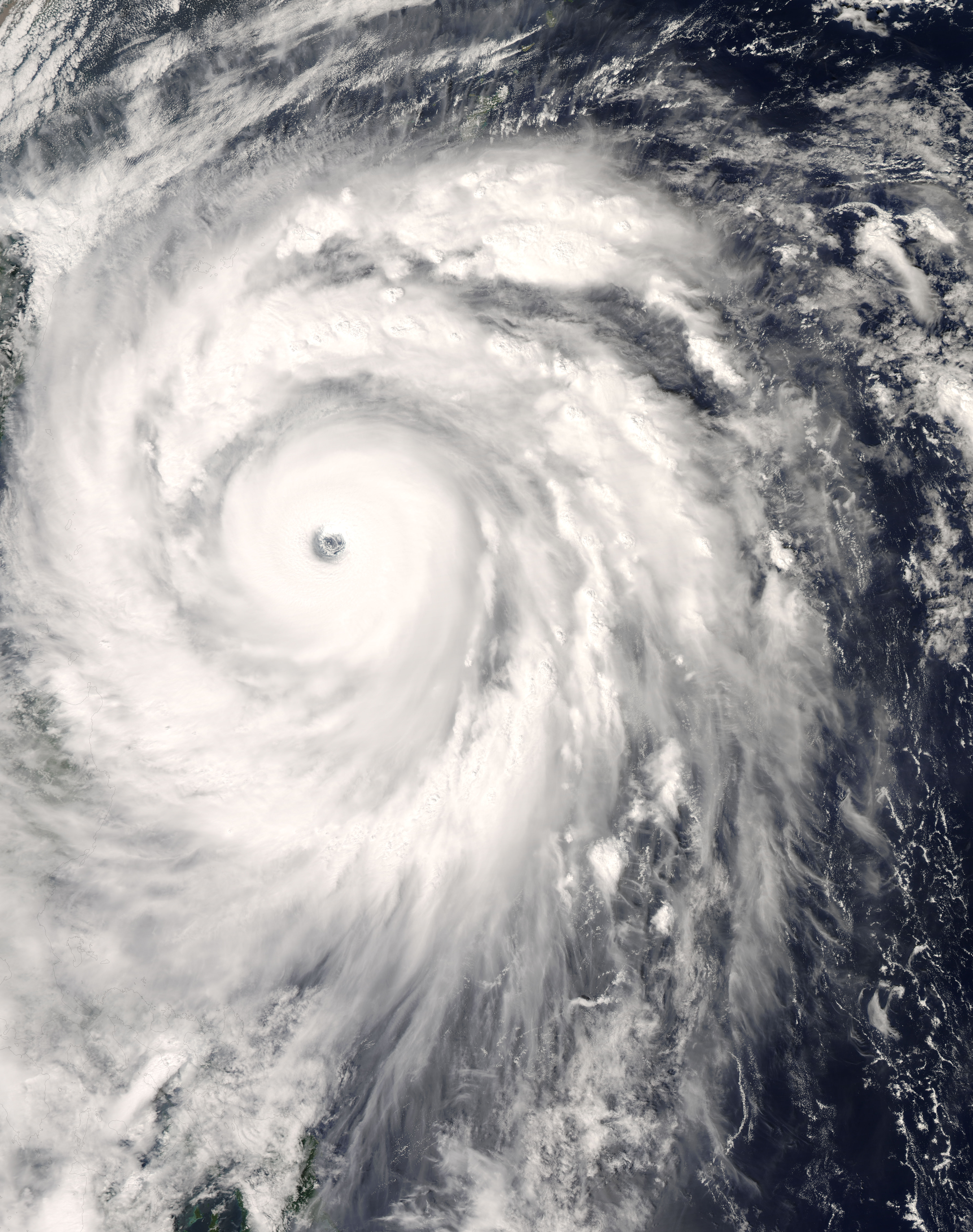 The title of “strongest storm of 2008” goes to Typhoon Jangmi, shown in this image from the Moderate Resolution Imaging Spectroradiometer (MODIS) on NASA’s Aqua satellite from September 27, 2008. Seen from space, even a super typhoon seems more beautiful than dangerous. The 50-kilometer-wide eye of Jangmi is encircled by a smooth disk of clouds. Bands of clouds swirl gracefully into the low-pressure heart of the storm. The smooth cloud band north of the eye is studded with thunderstorms. On the ground, Jangmi was less lovely It was not only the strongest storm in any ocean basin in 2008 but the only storm to reach category 5 strength anywhere in the world that year.